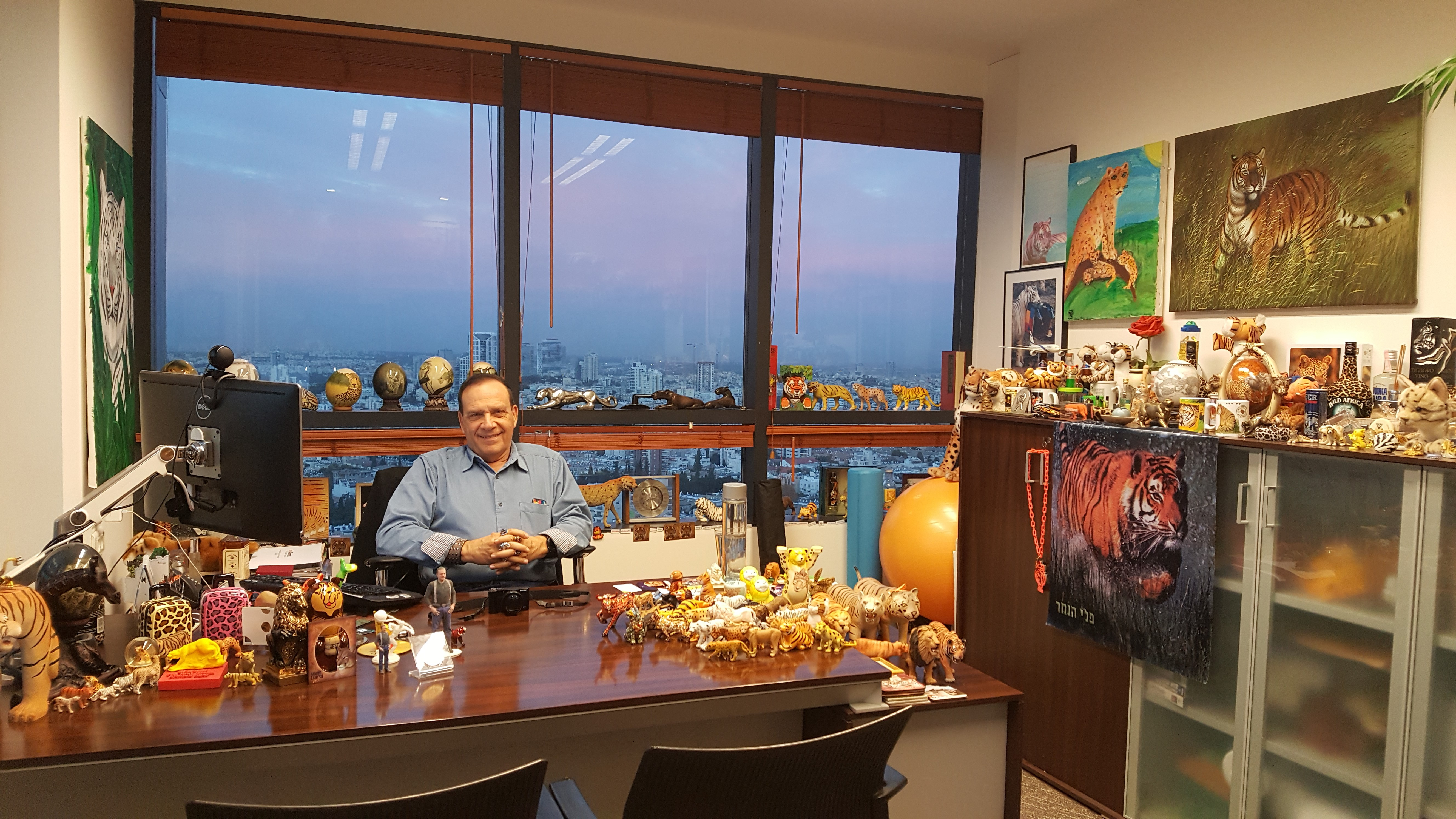 Peli Hanamer Peled at his office